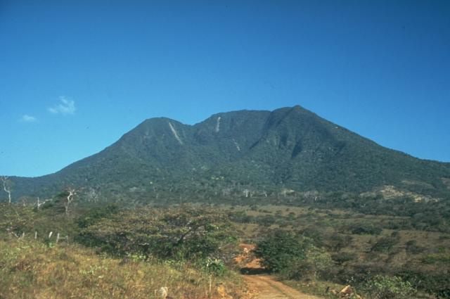 The highest peak of the Orosí volcanic complex is Volcán Cacao, which is seen in this view from the SW. The summit of Cacao, 5.5 km SE of Orosí, was breached to the SW as a result of edifice collapse. Orosí is one of a cluster of four eroded and vegetated cones in the Guanacaste Range at the NW corner of Costa Rica. Volcán Orosí itself has a conical shape as viewed from the north or west, but its flanks are heavily eroded. The age of the latest activity of the Orosí complex is not known.